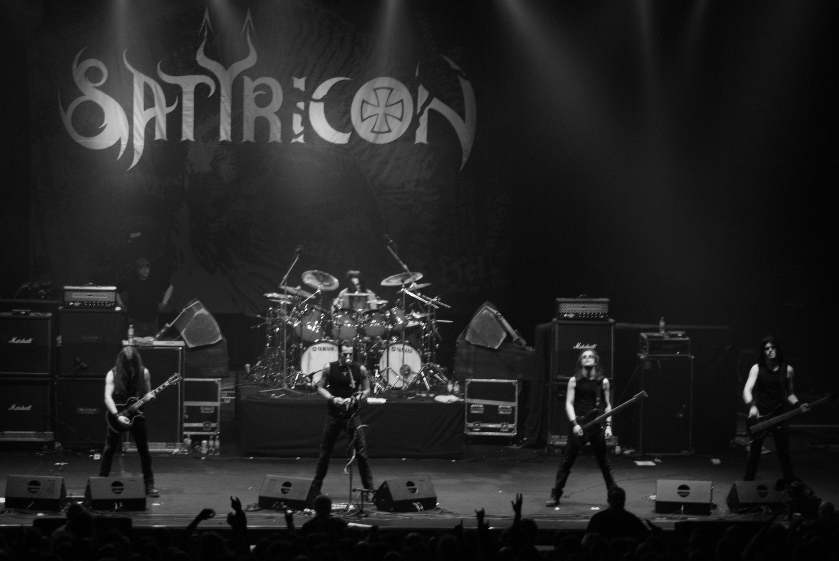 Satyricon during Metalmania 2008 festival